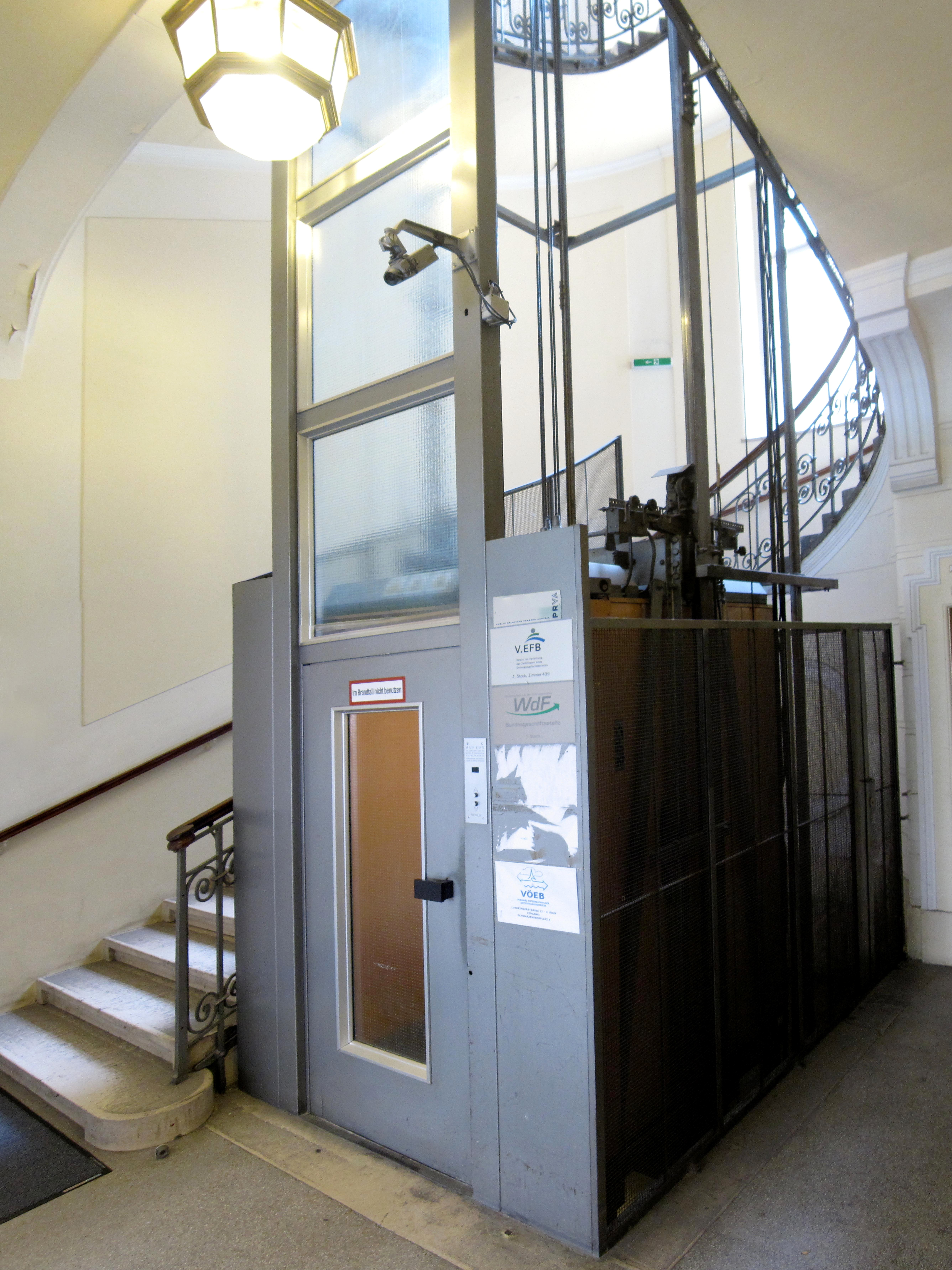 Anton Freissler elevator (today Otis) F. Nr. 25341 (1973) in the House of Industry, Vienna.Anton Freissler elevator (today Otis) F. Nr. 25341 (1973) in the House of Industry, Vienna.